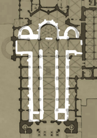 Romanic Cathedral Pamplona